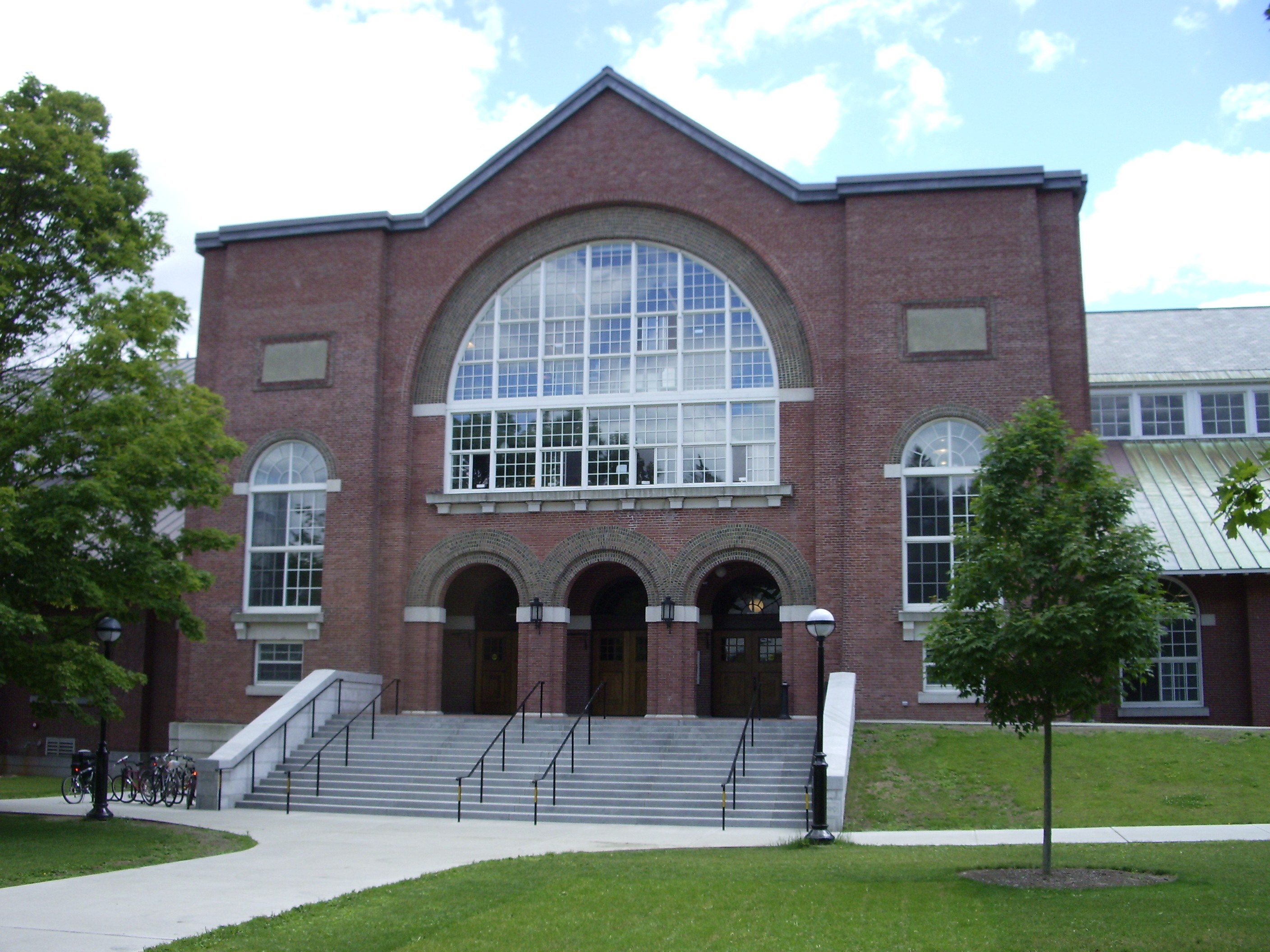 Photograph of the Alumni Gymnasium at the campus of Dartmouth College in Hanover, New Hampshire.